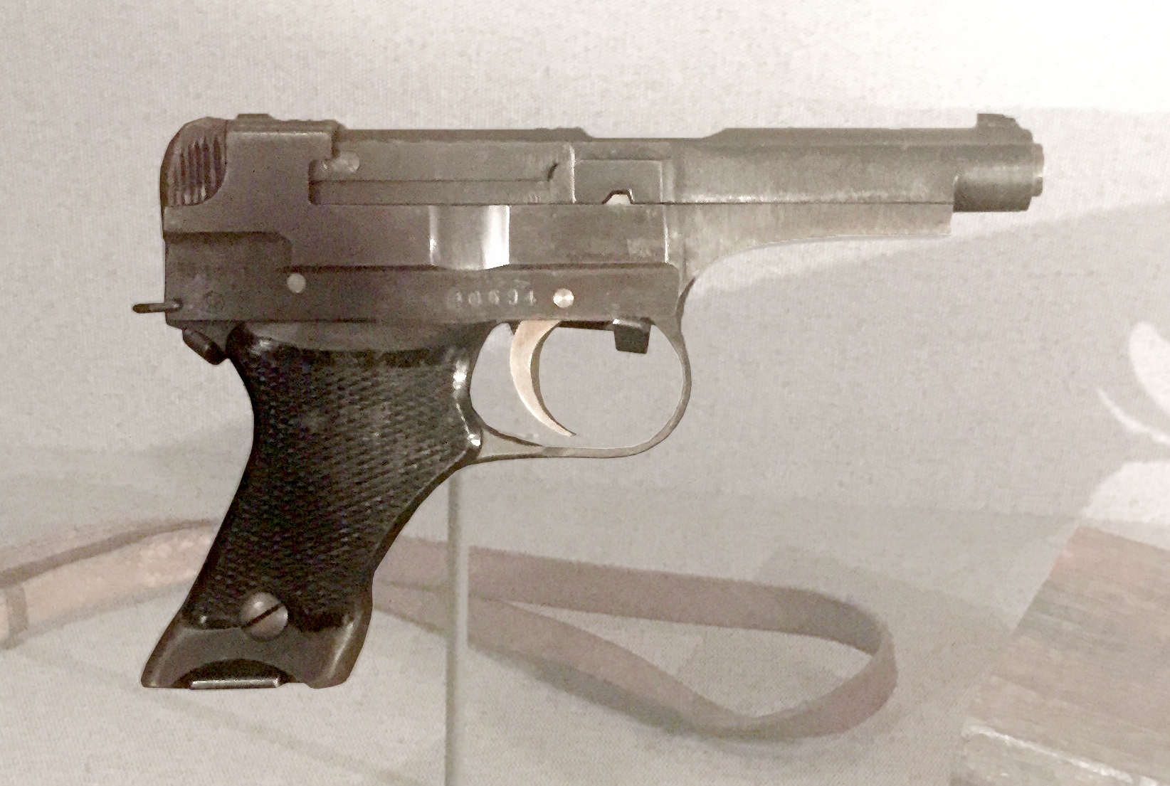 Type 94 Pistol of the Imperial Japanese Armed Forces. Displayed in the Pacific War Museum in Fredericksburg, Texas, USA.